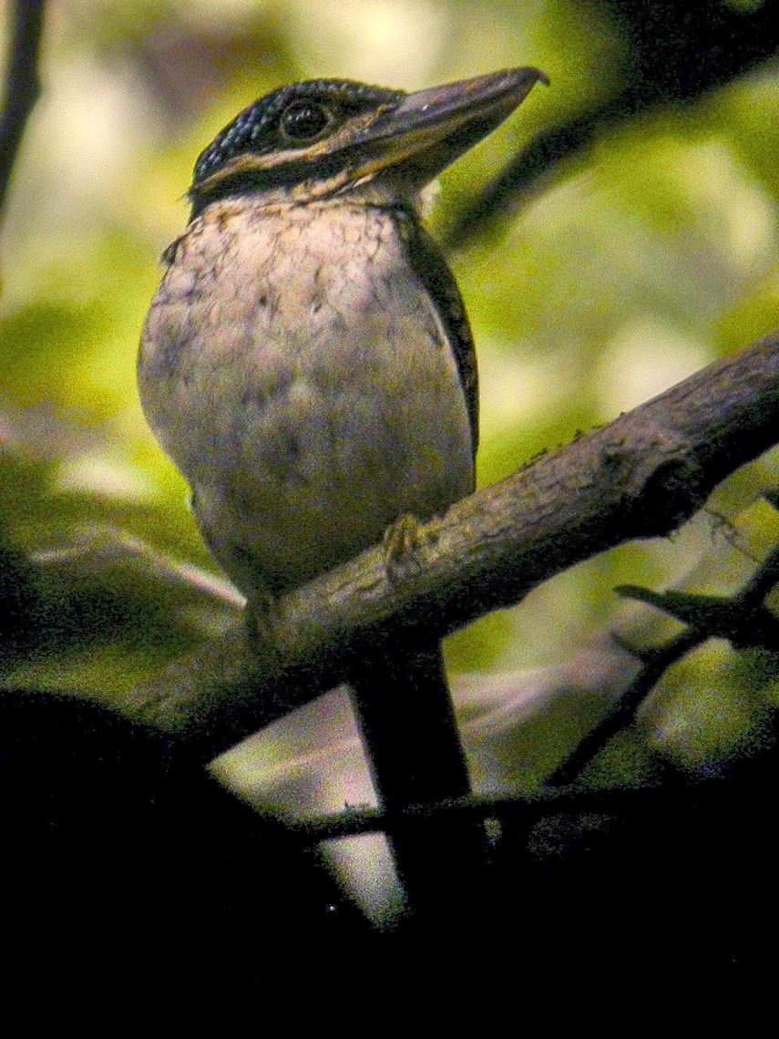 Hook-billed Kingfisher - Papua NG HOOK_BI9